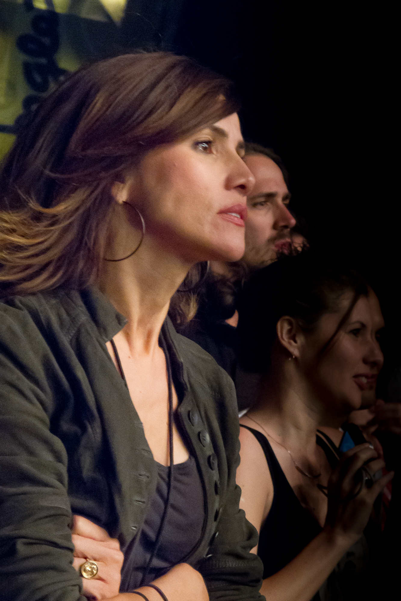 Spanish actress and model Goya Toledo.